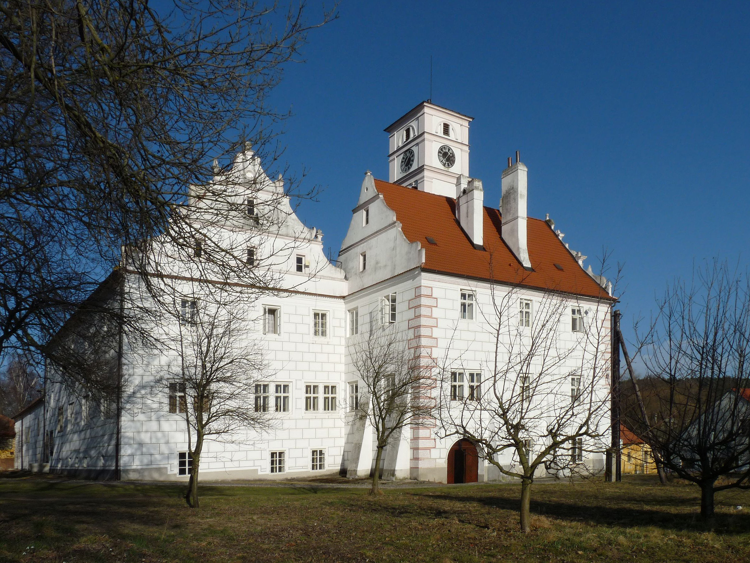 Žichovice Castle, Klatovy District, Plzeň Region, Czech Republic